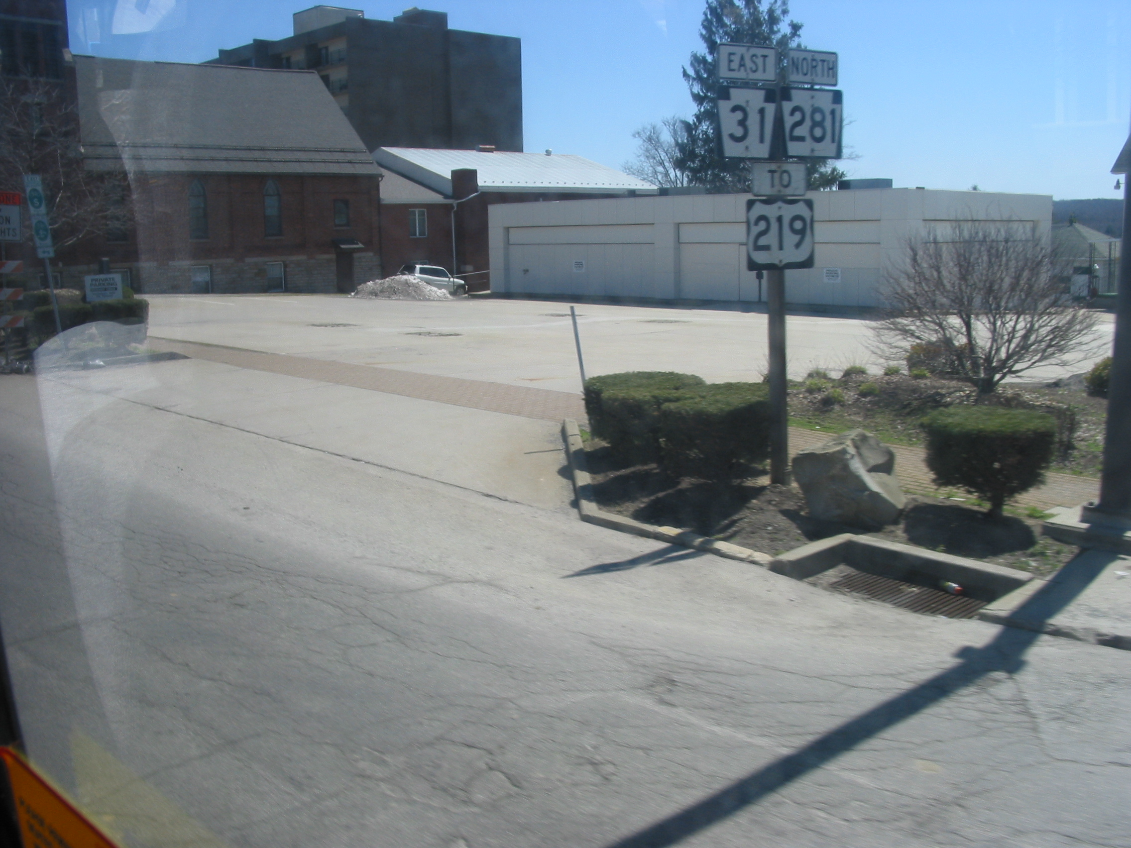 Eastbound one-way pair of PA 31/281 in Somerset. A "TO US 219" sign is at the bottom of the sign assembly.